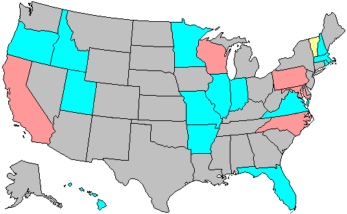 Summary of party change of U.S. house seats in the 1990 House election. Stripes indicate a tie between the gains of two or more parties. Legend: 6+ Democratic seat pickup 3-5 Democratic seat pickup 1-2 Democratic seat pickup 1-2 Republican seat pickup 3-5 Republican seat pickup 6+ Republican seat pickup 1-2 Independent seat pickup Note: years ending in 2 may have inconsistent results due to redistricting.